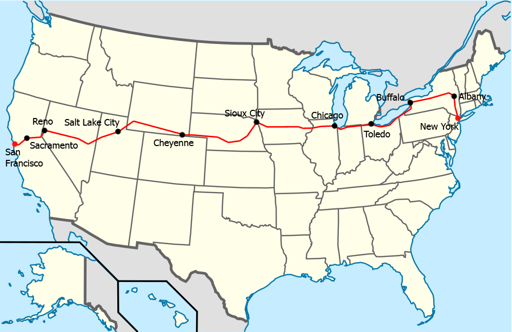 Route of Alice Huyler Ramsey's historic trip across the United States in 1909. Map based on waypoints described in Curt McConnell: „A Reliable Car and a Woman Who Knows It.“ The First Coast-to-Coast Auto Trips by Women, 1899–1916. McFarland, Jefferson 2001, ISBN 0-7864-0970-3 using File:US Locator Blank2.svg